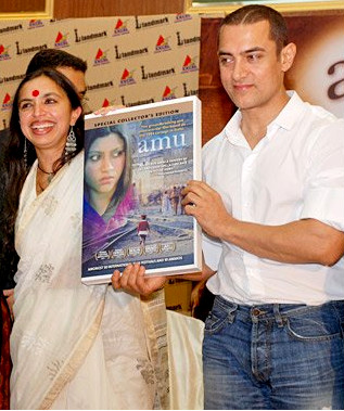 Shonali Bose, Aamir Khan and Konkona Sen at the press meet of DVD release of film 'Amu'